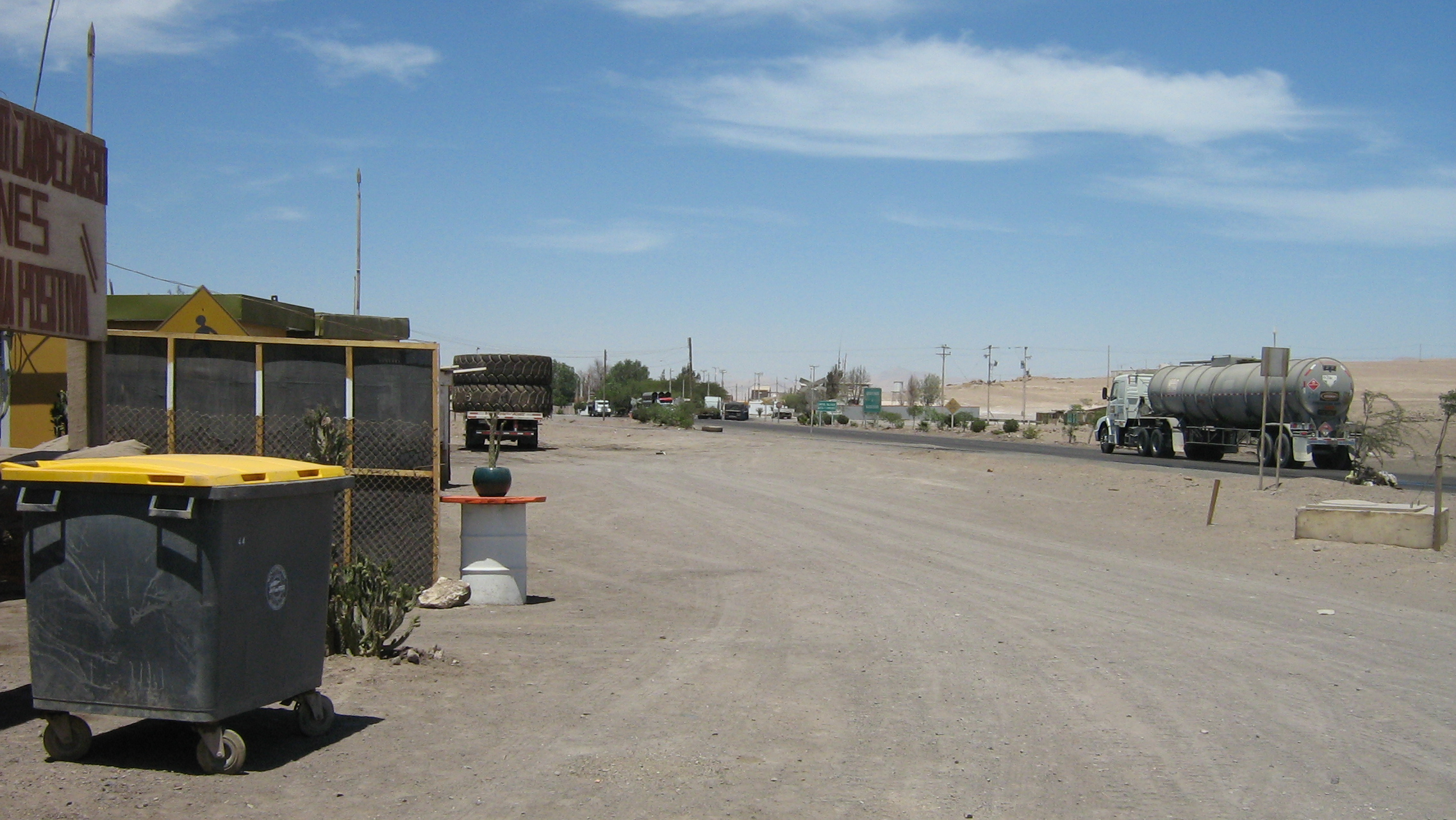 Baquedano town north entrance